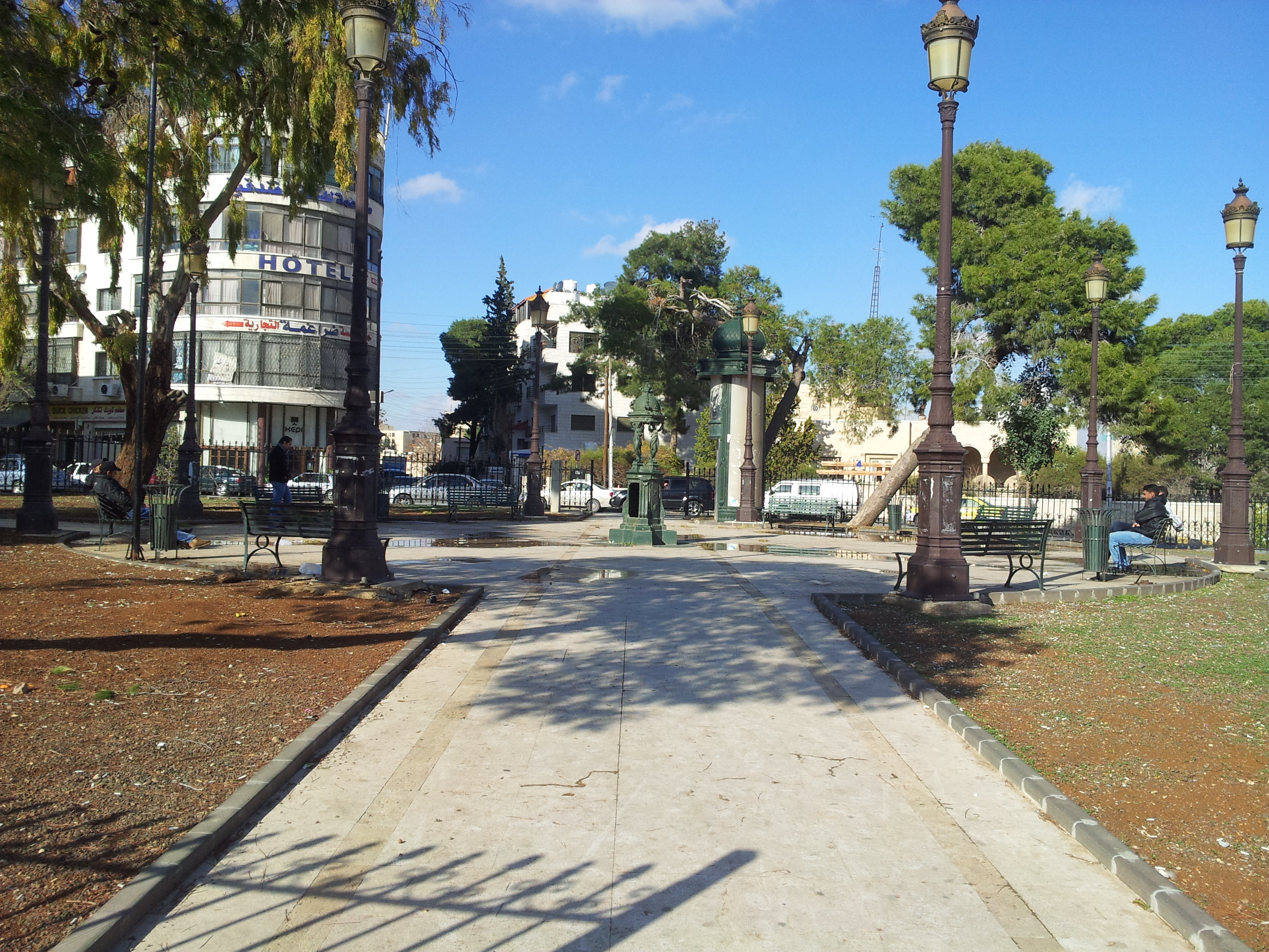 Paris Square, Amman, Jordan